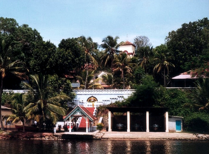 The view of the Thevally Palace facing the Ashtamudi Lake in Kollam, Kerala, India